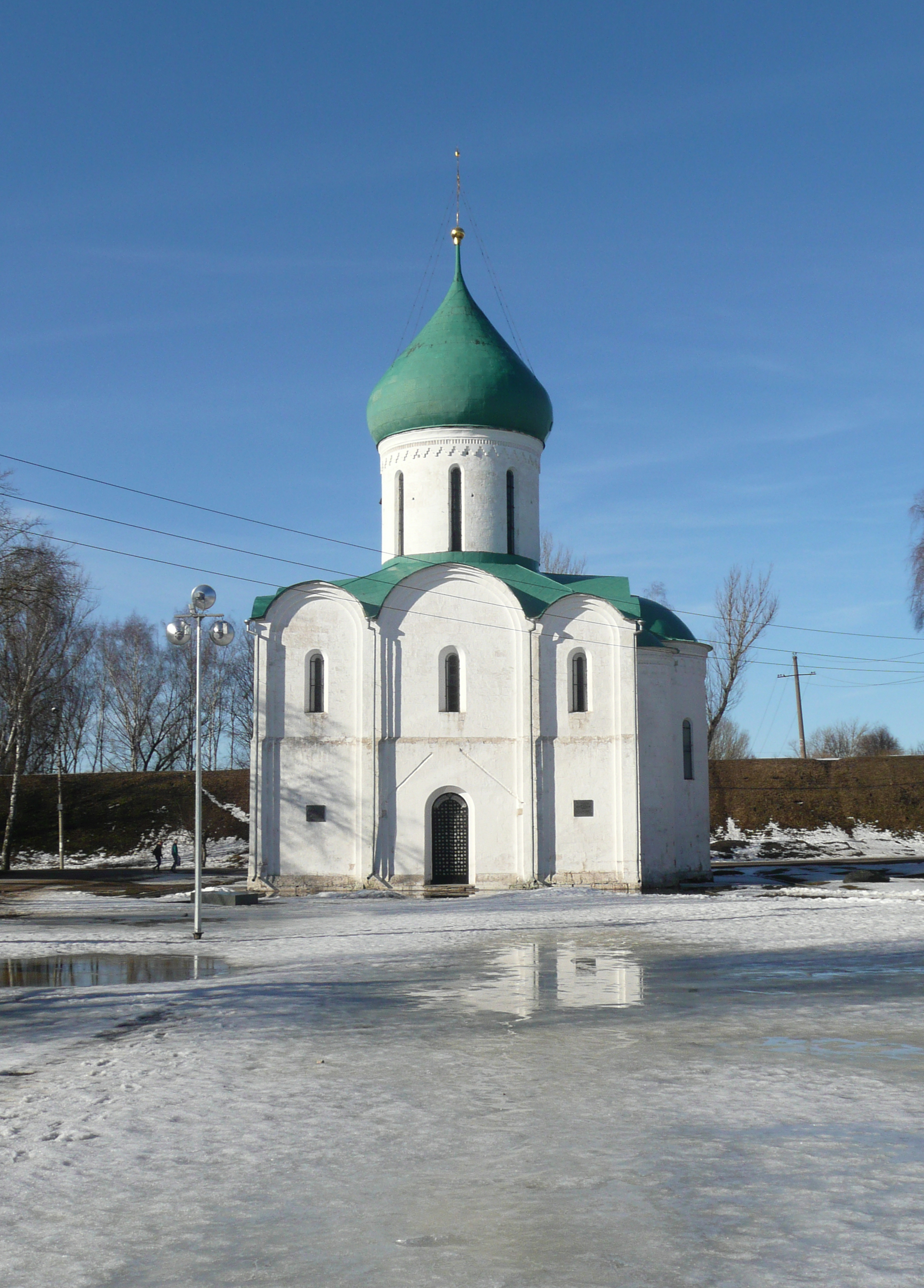 The Cathedral of the Saviour in Pereslavl